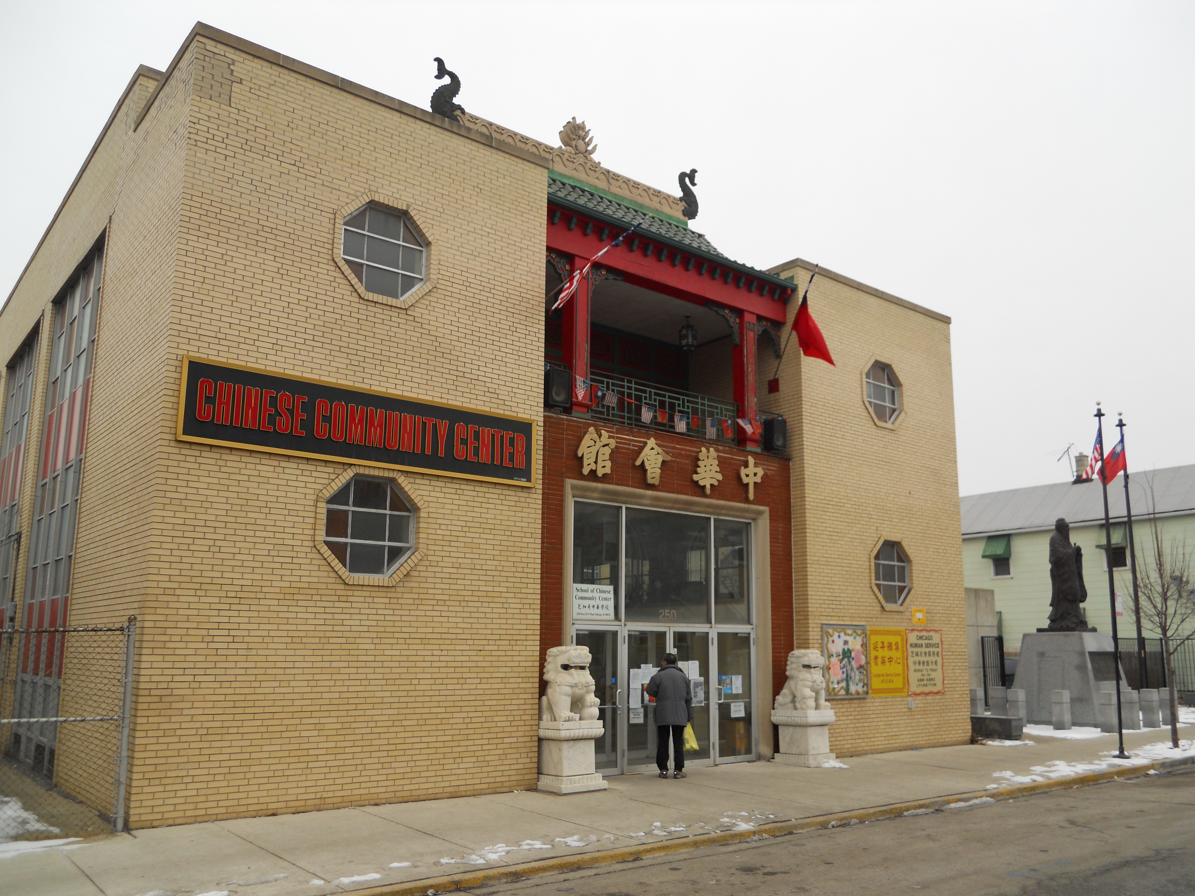 Chicago Chinese Community Center